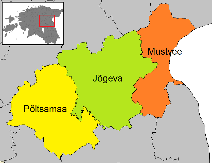 Map of the municipalities of Jõgeva County after the Administrative Reform of Estonia in 2017.